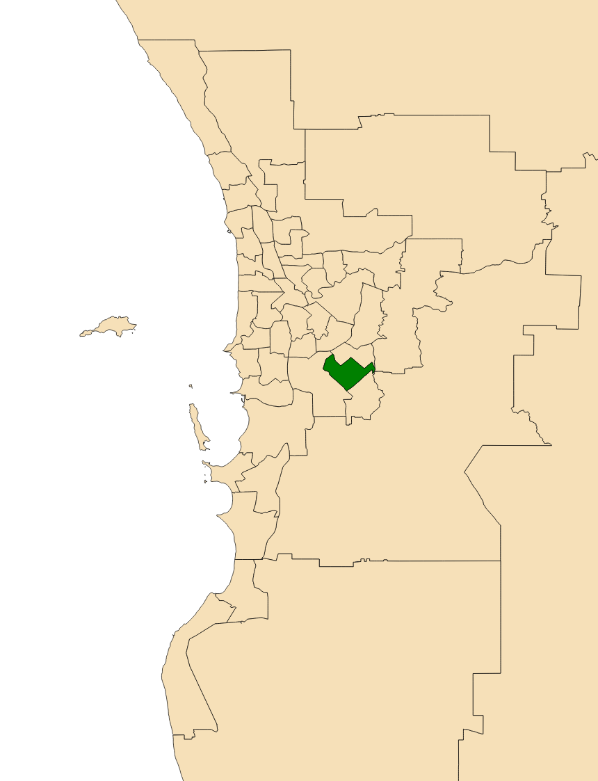 Location of the electoral district of Southern River in the Perth metropolitan area, Western Australia as of the 2017 WA state election.